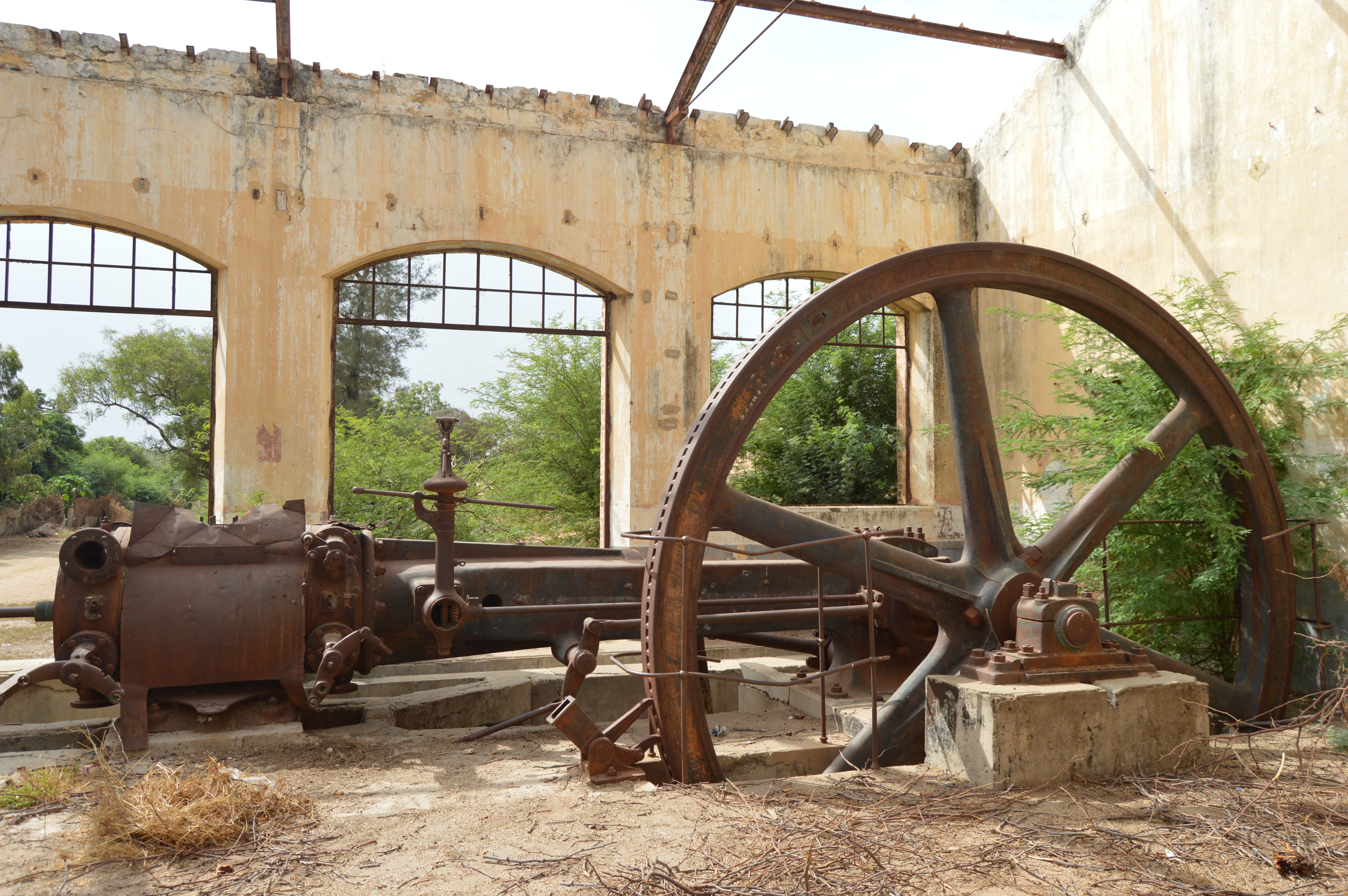 Ancient Mbakhana Water Factory, nearby Saint-Louis, Senegal; oldest sub-saharian african existing steam engines.